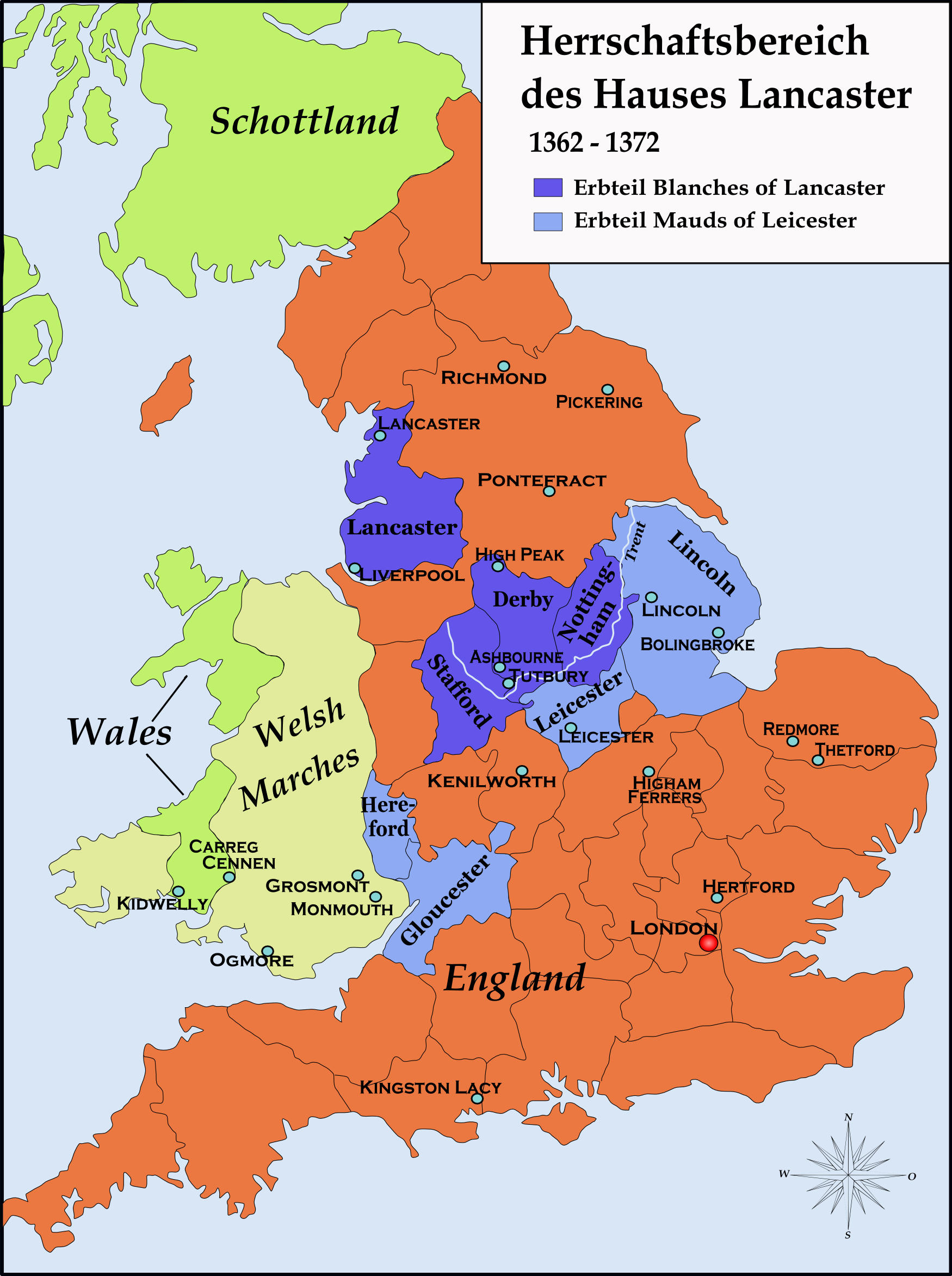 Map showing the Lordships belonging to the House of Lancaster in 1362